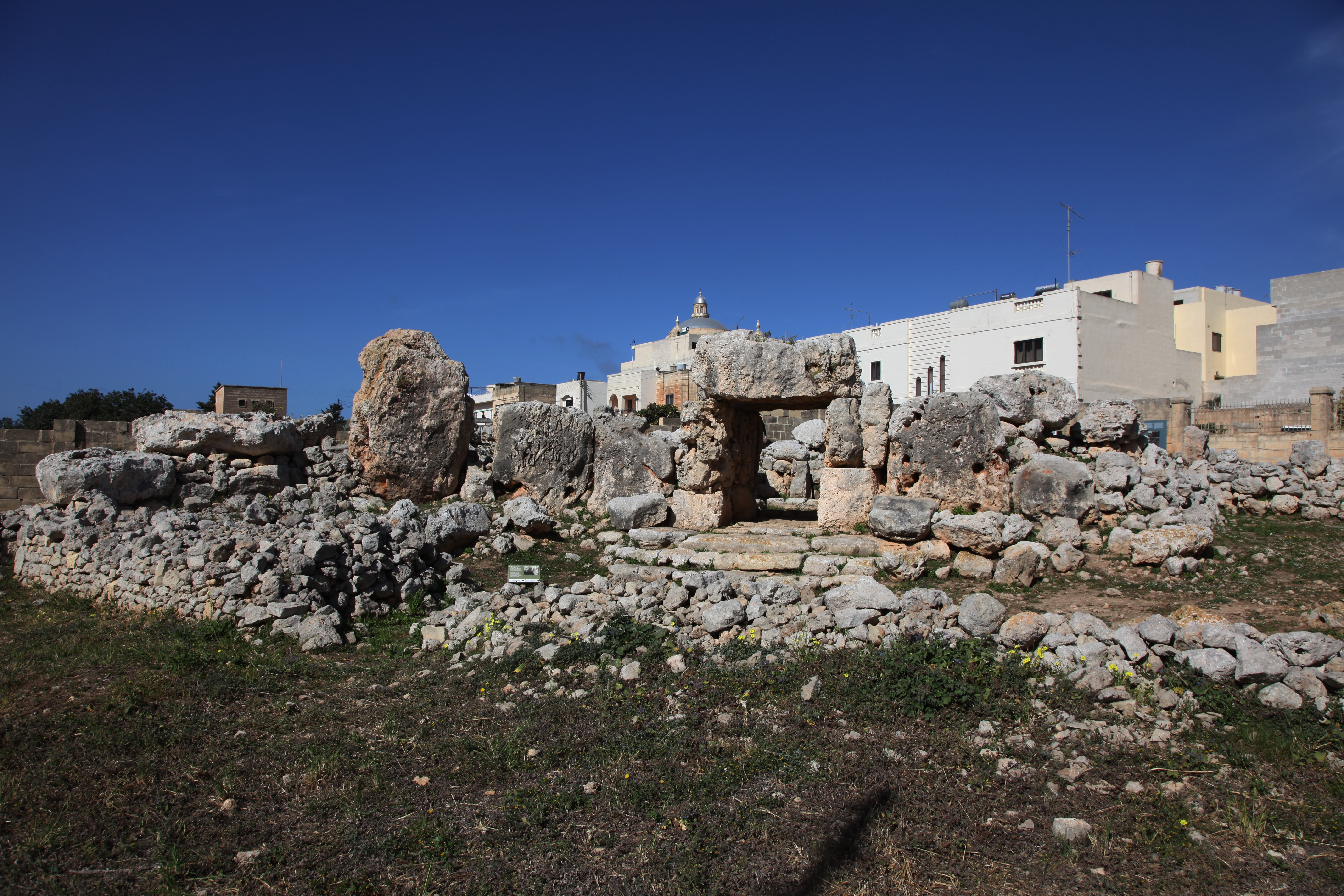 The temple Ta' Ħaġrat in Mgarr, Malta